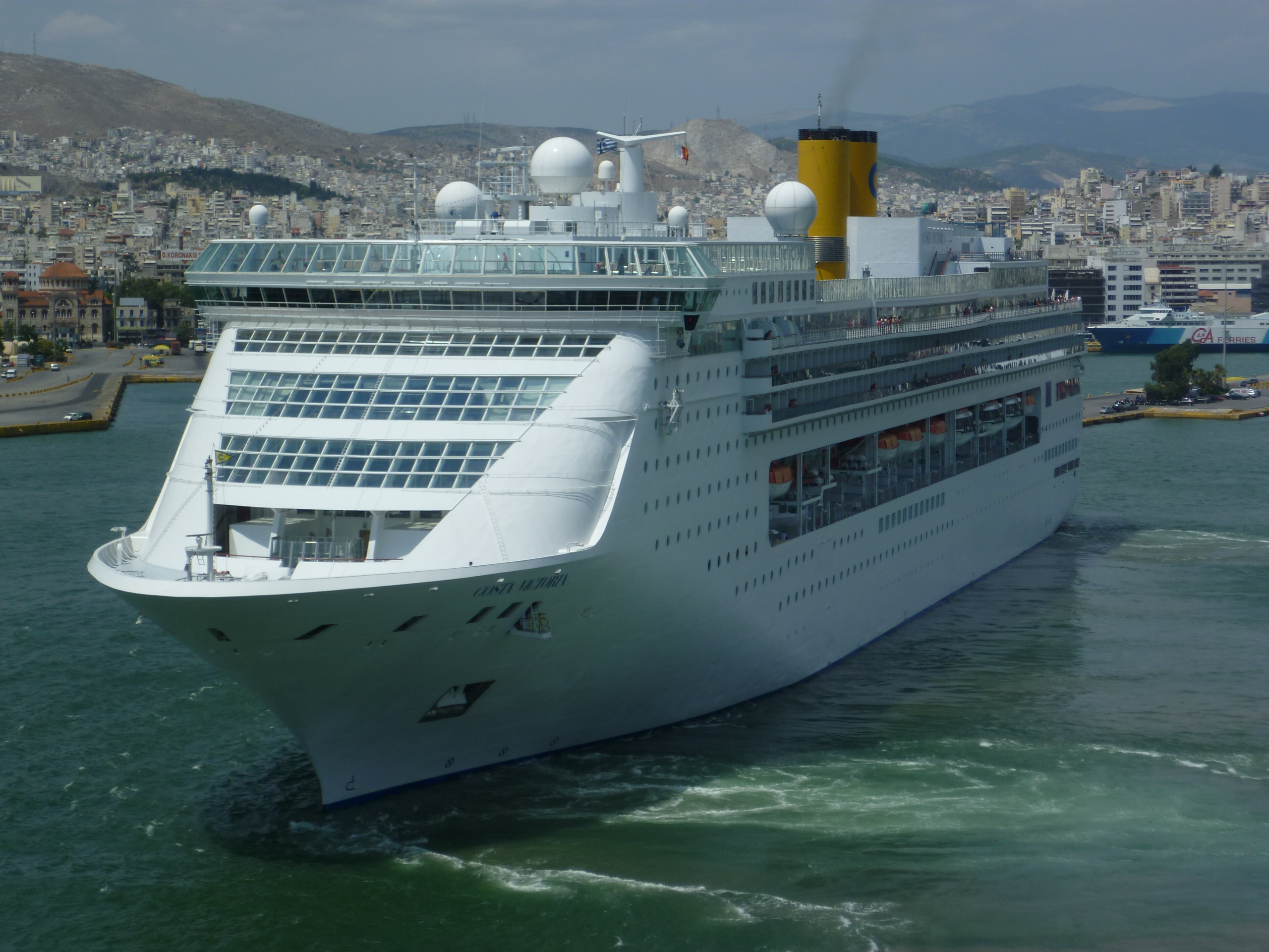 Cruise ship Costa Victoria in Piraeus, 6 July 2011